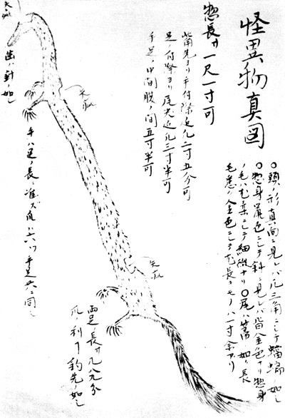 Inugami (犬神, a dog-spirit created, worshipped and employed by a family via sorcery) from the Jinnai("塵埃").